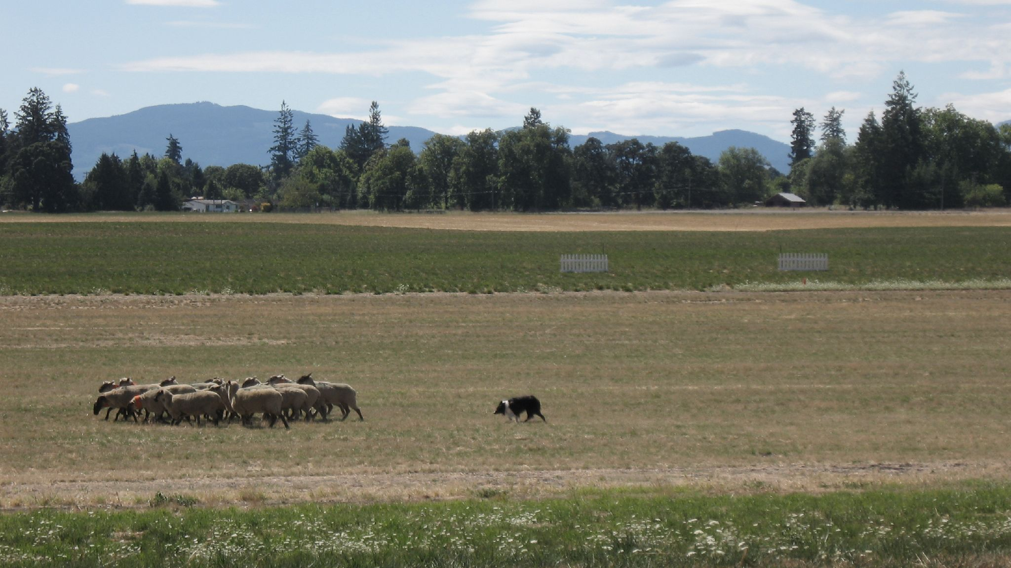 Working dog with sheep